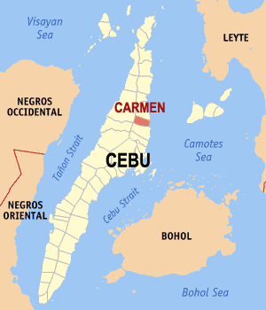 Map of Cebu showing the location of Carmen